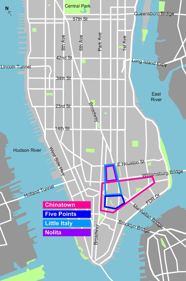 map of Chinatown, New York (including Nolita, Little Italy, and Five Points)